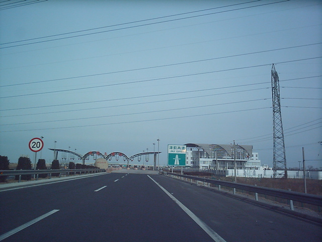 Jinji Expressway in Tianjin